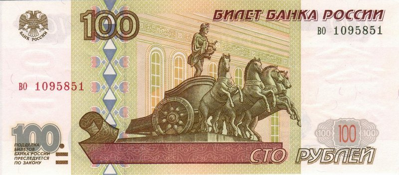 Russian banknote. 100 rubles. Version of 1997 year. Front